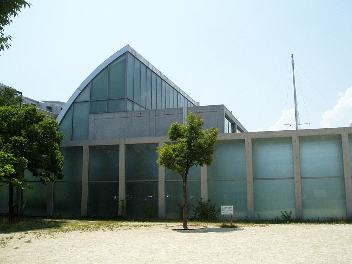 East side of Nishinomiya Shell Museum located in Nishinomiya, Hyogo, Japan.